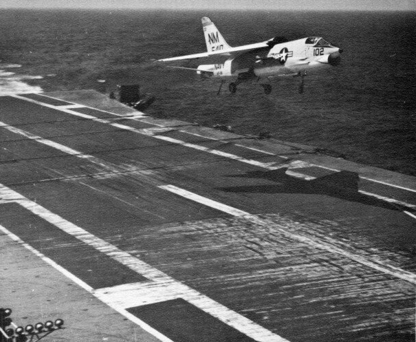 A U.S. Navy Vought F8U-1 Crusader fighter (BuNo 145410) from Fighter Squadron VF-191 Satan's Kittens after a wave-off. VF-191 was assigned to Carrier Air Group 19 (CVG-19) aboard the aircraft carrier USS Bon Homme Richard (CVA-31) for a deployment to the Western Pacific from 26 April to 13 December 1961.